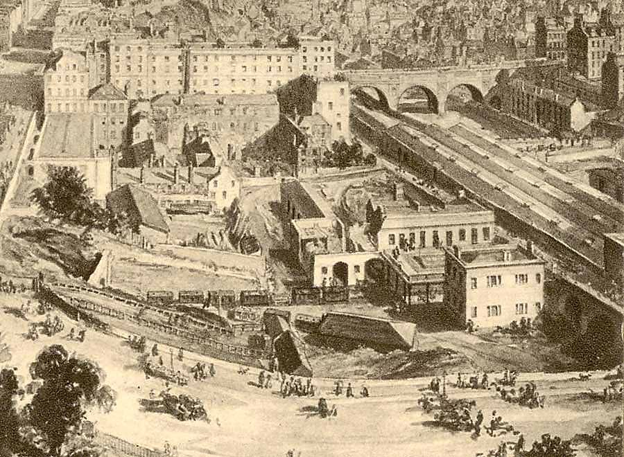 A view of the North Bridge station and Canal Street station in Edinburgh about 1850, looking south-east